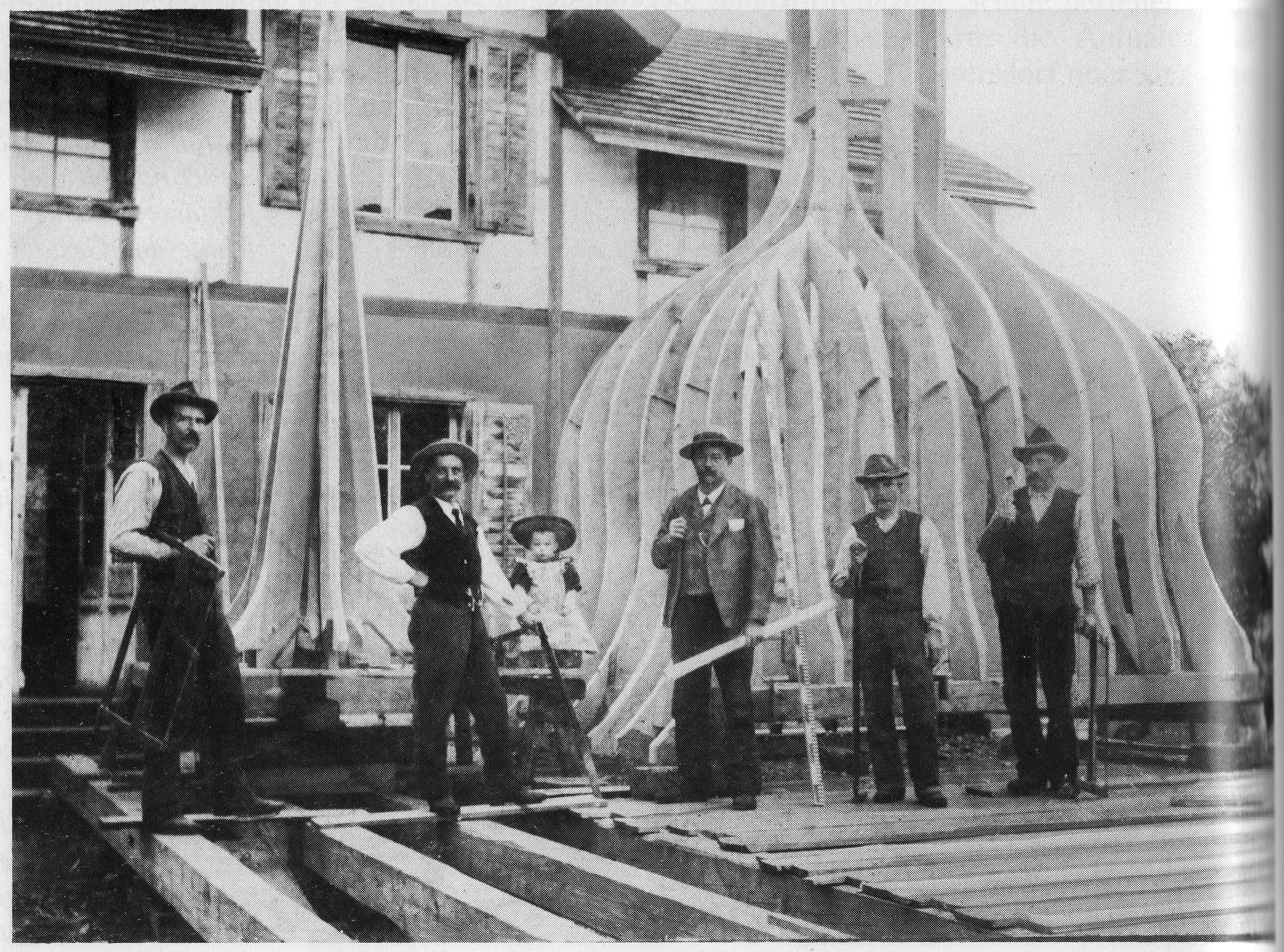 Wooden Frame for the Spire on the Tower of Baſſersdorff’s new Schoolhouſe, built by Carpenter Johann Jakob Vetter (third from the right), ſtanding with his Workers in front of his Shop at Baltenſchwyl Road.